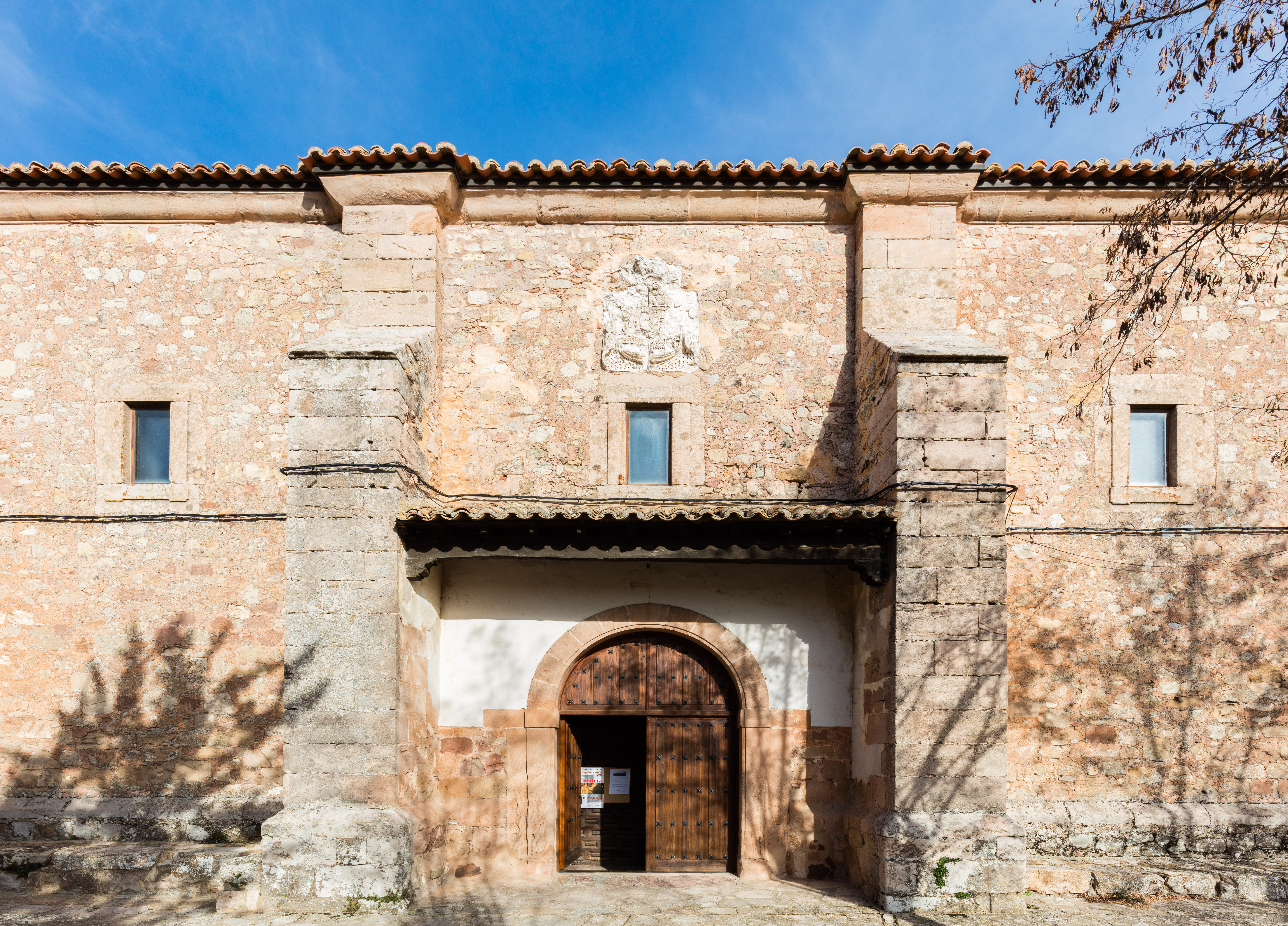 Convent of Santa Isabel, Medinaceli, Soria, Spain